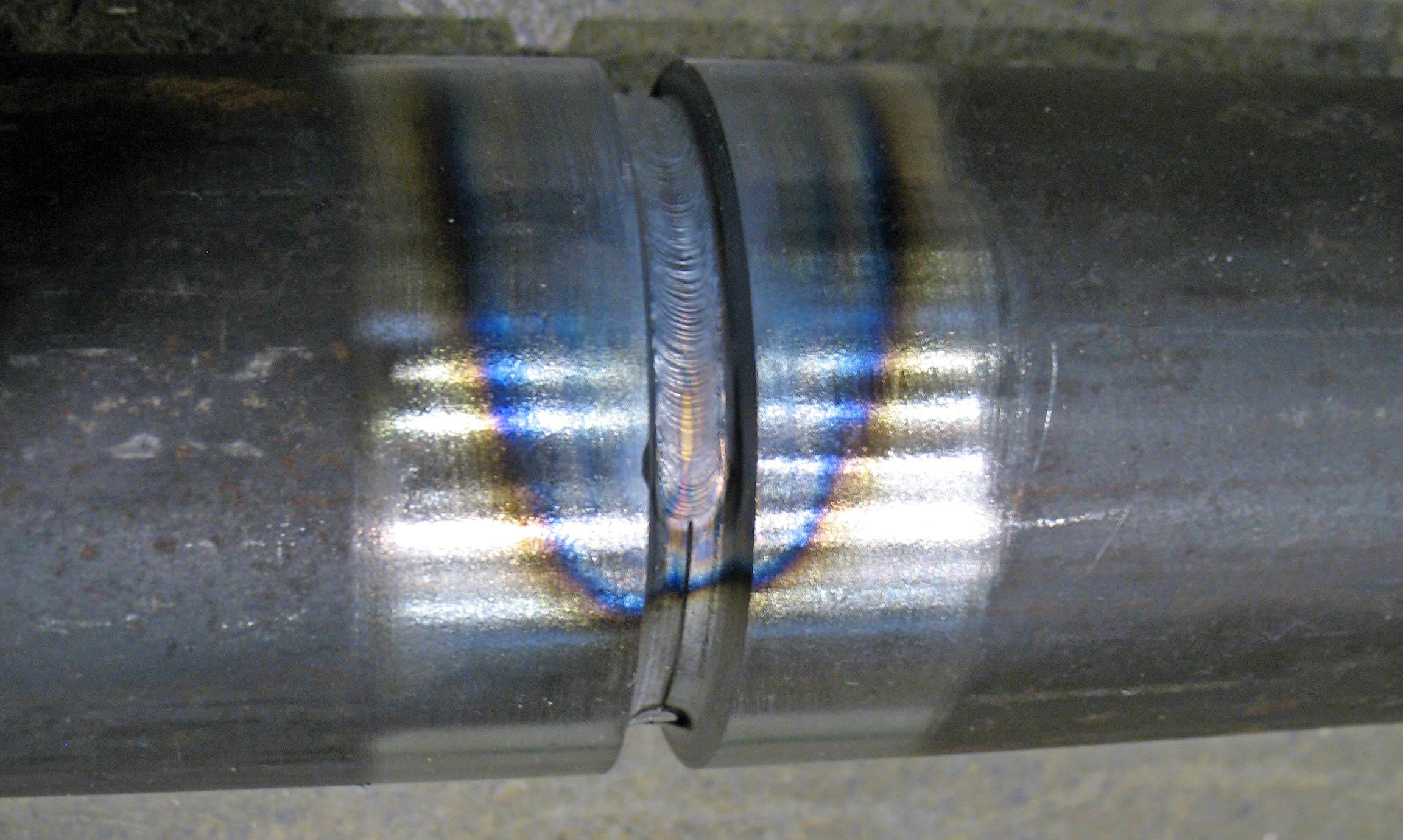 Partial weld around a pipe joint with clear heat affected zone